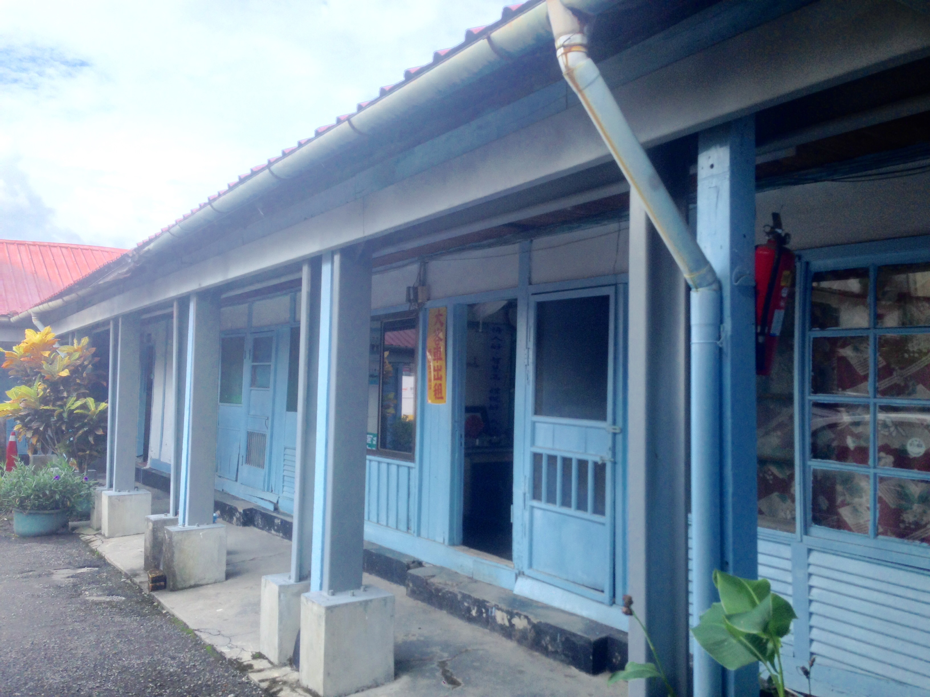 Liouguei Bus Stop中文（台灣）: 原六龜里池田屋（高雄客運六龜站）